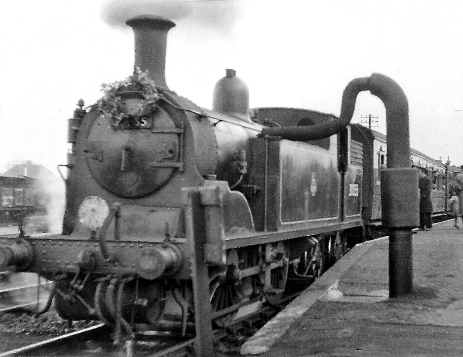 Last Meon Valley train at Alton. View NE, towards Farnham and London: ex-LSW Waterloo - Woking - Alton line (electrified 1937). The branch to Fareham via Droxford closed that day, 5/2/55; goods to Farringdon 5/8/68. The Winchester line was closed 5/2/73 but restored in stages from 11/75 by the heritage Mid-Hants Railway as far as Alresford. (Earlier (6/1901 - 12/9/32; goods 1/6/36) the Light Railway from Basingstoke had joined from the London direction). Note the wreath carried by ex-LSW Drummond M7 class No. 30055 (built 12/1905, withdrawn 9/63). See also SU7239 : Local train to Winchester at Alton.